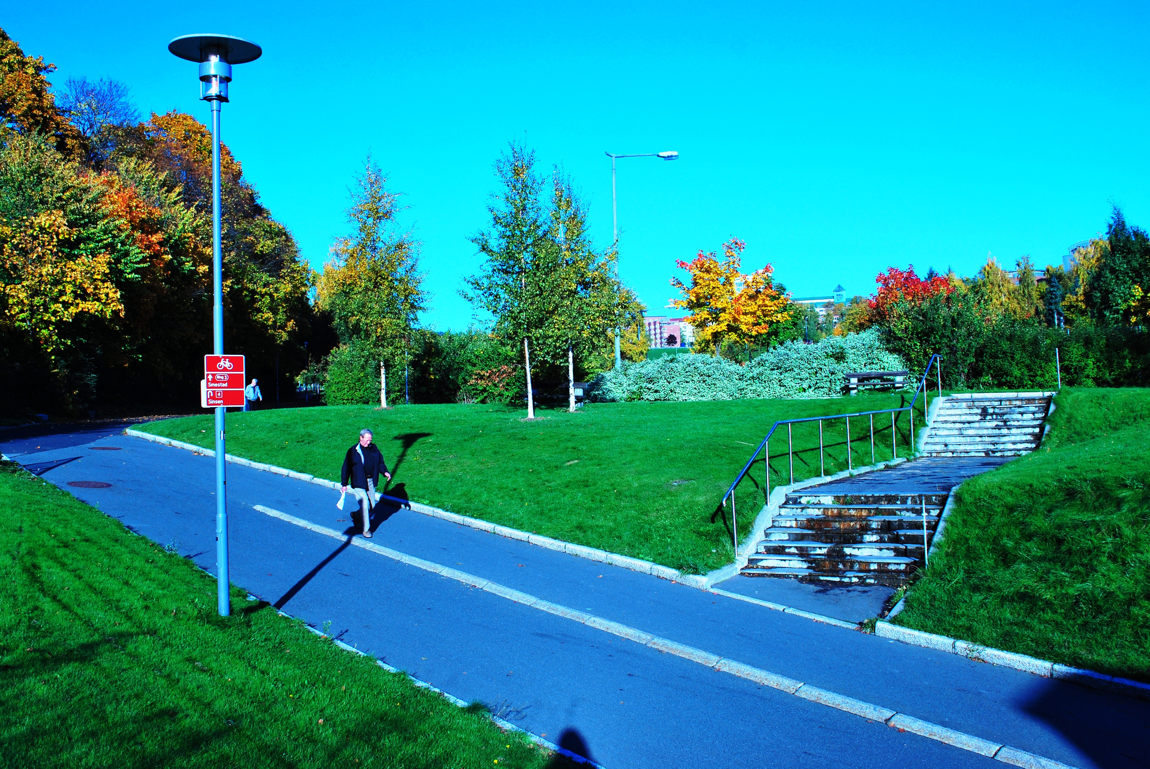 "Turvei" (park trail) no. D1 by crossroad Mailundveien and Chr Michelsens gate, Oslo. This turvei was among the first established in Oslo, ca. 1947